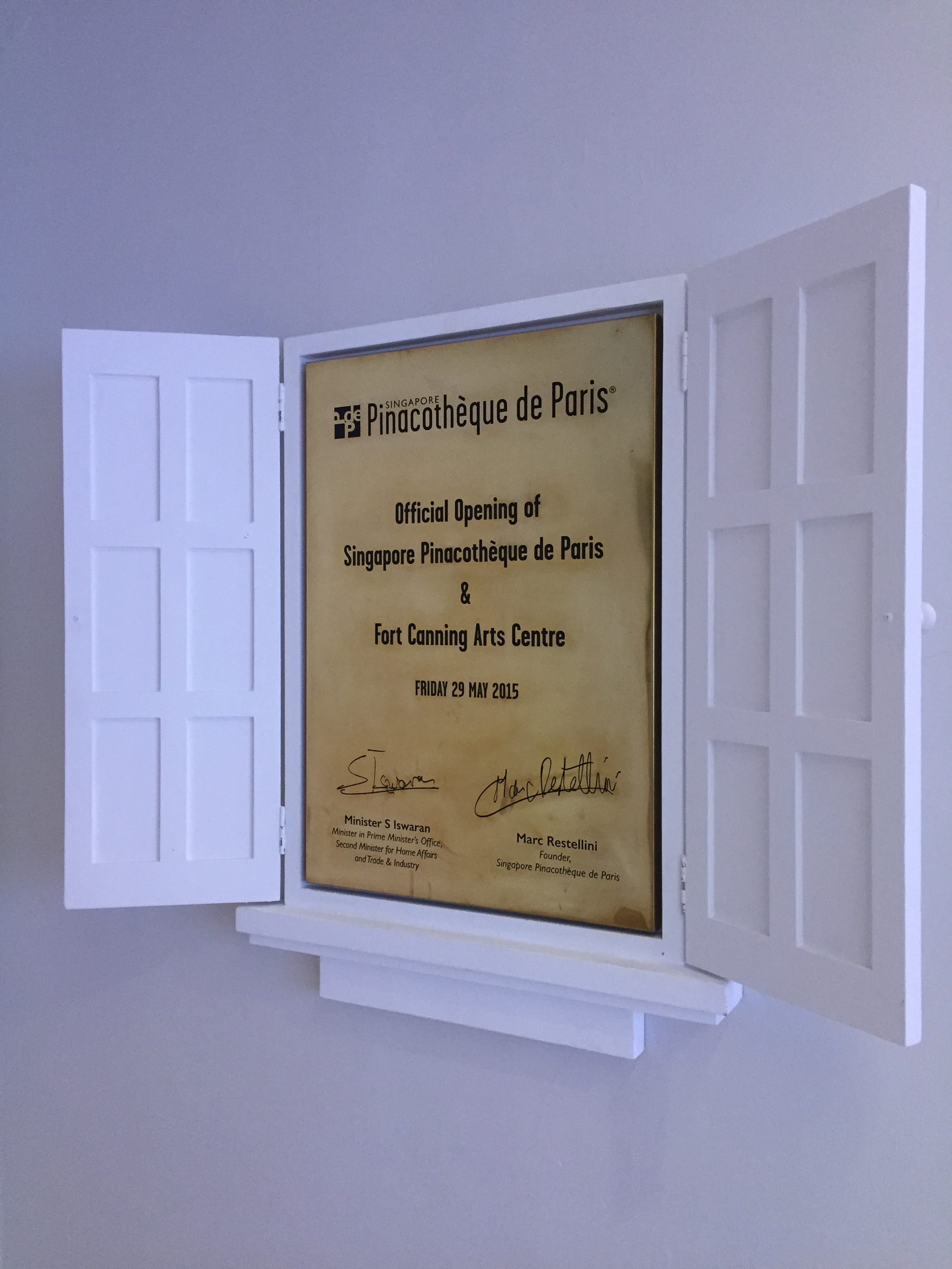 A plaque commemorating the official opening of the art museum Singapore Pinacothèque de Paris and the Fort Canning Arts Centre in Fort Canning Centre, Singapore. The museum and arts centre were in operation from 29 May 2015 until 11 April 2016.